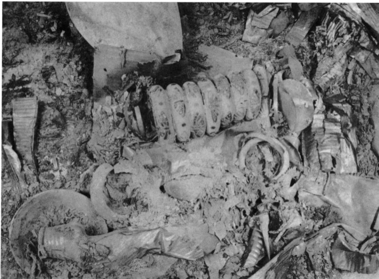 Giza Necropolis. Tomb of Hetepheres. Braclets in situ.